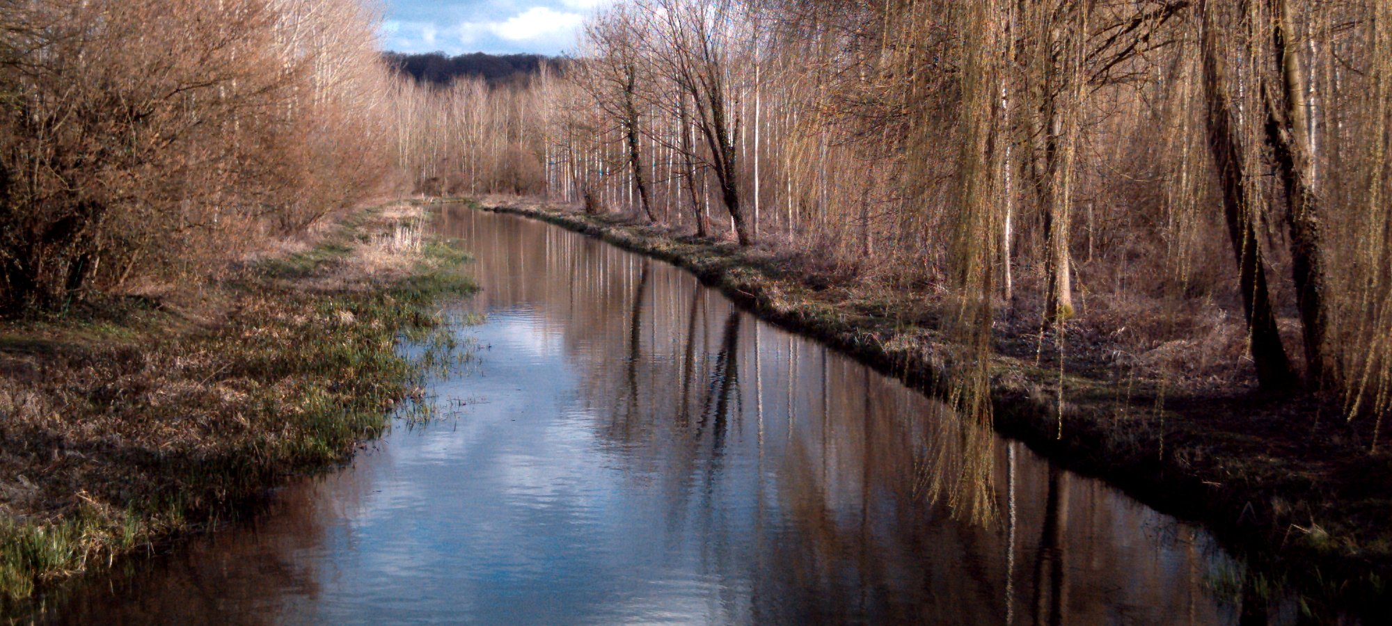 The Brêche or Brèche is a small river in France.